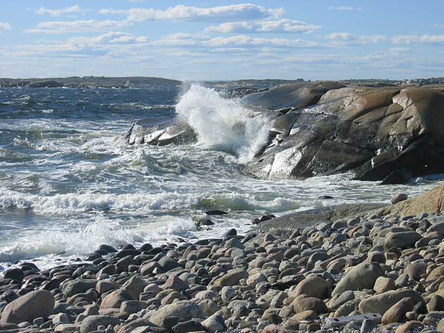 Wave on the coast of Herføl, Ytre Hvaler national park